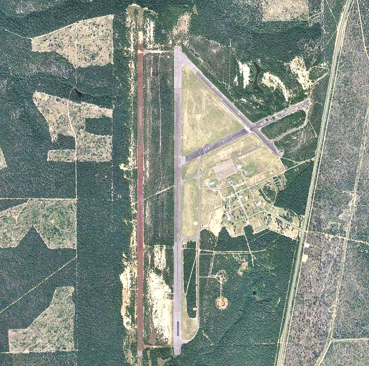 USGS digital orthophoto of Pierce Field, an airfield in Florida